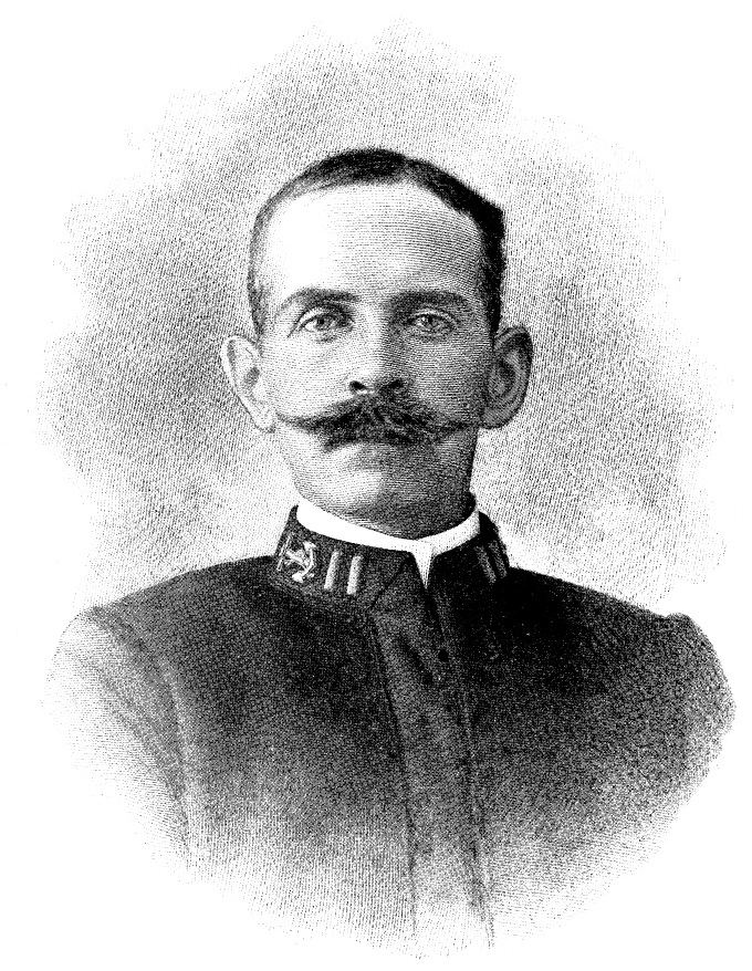 Lieutenant John B. Bernadou, USN